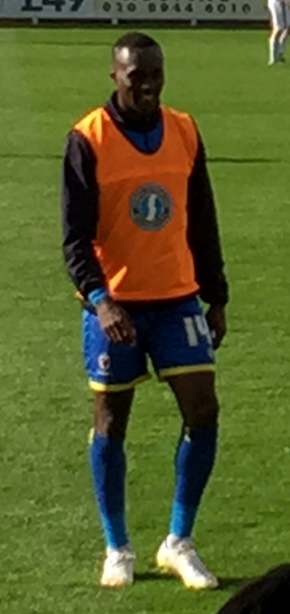 Adebayo Azeez as a substitute for AFC Wimbledon during the League Two match against Notts County on 19 September 2015 at Kingsmeadow.